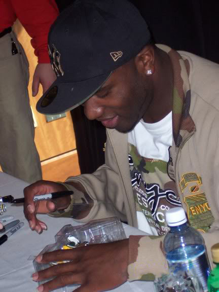 Nick Collins during autograph session in 2006.